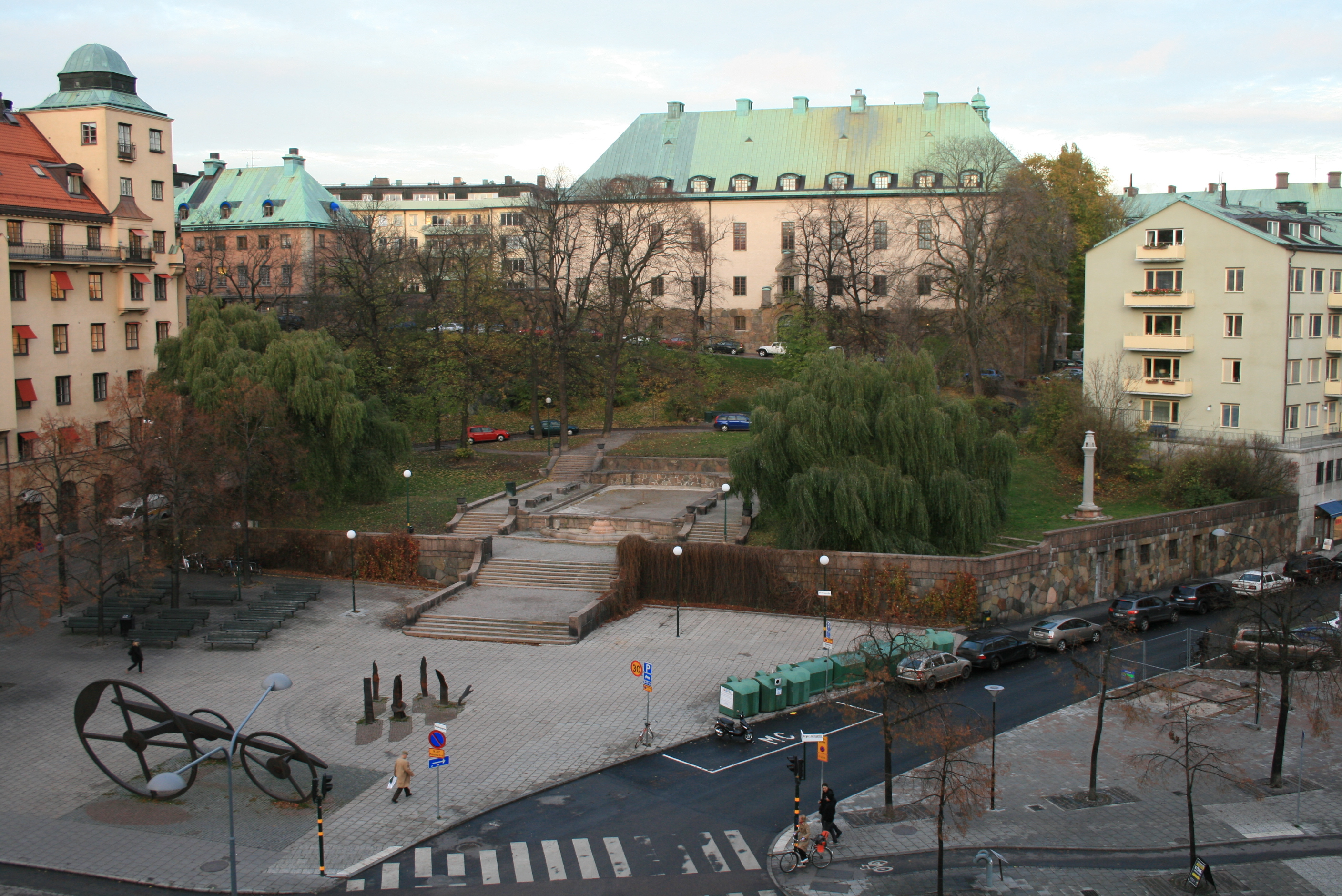 Eriksbergsplan, Eriksbergsparken, Timmermansorden. Stockholm.